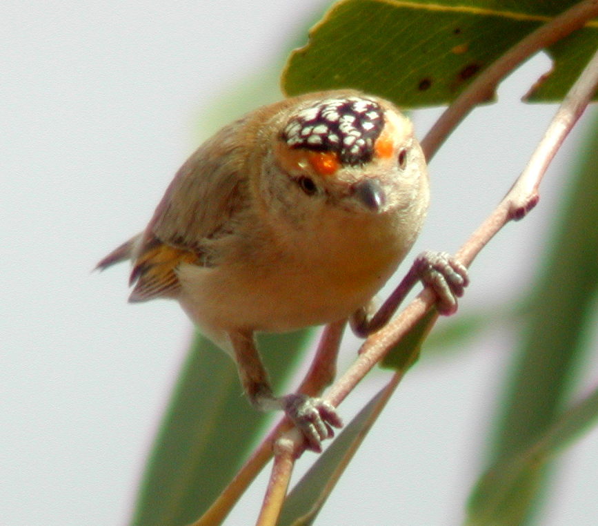 Red-browed Pardalote (Pardalotus rubricatus) Newhaven, NT, Australia